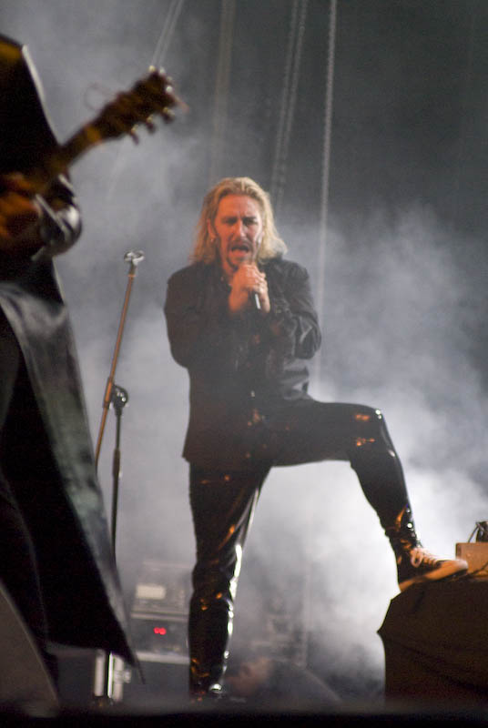 Therion live in Płock, Poland, 2008-09-06.